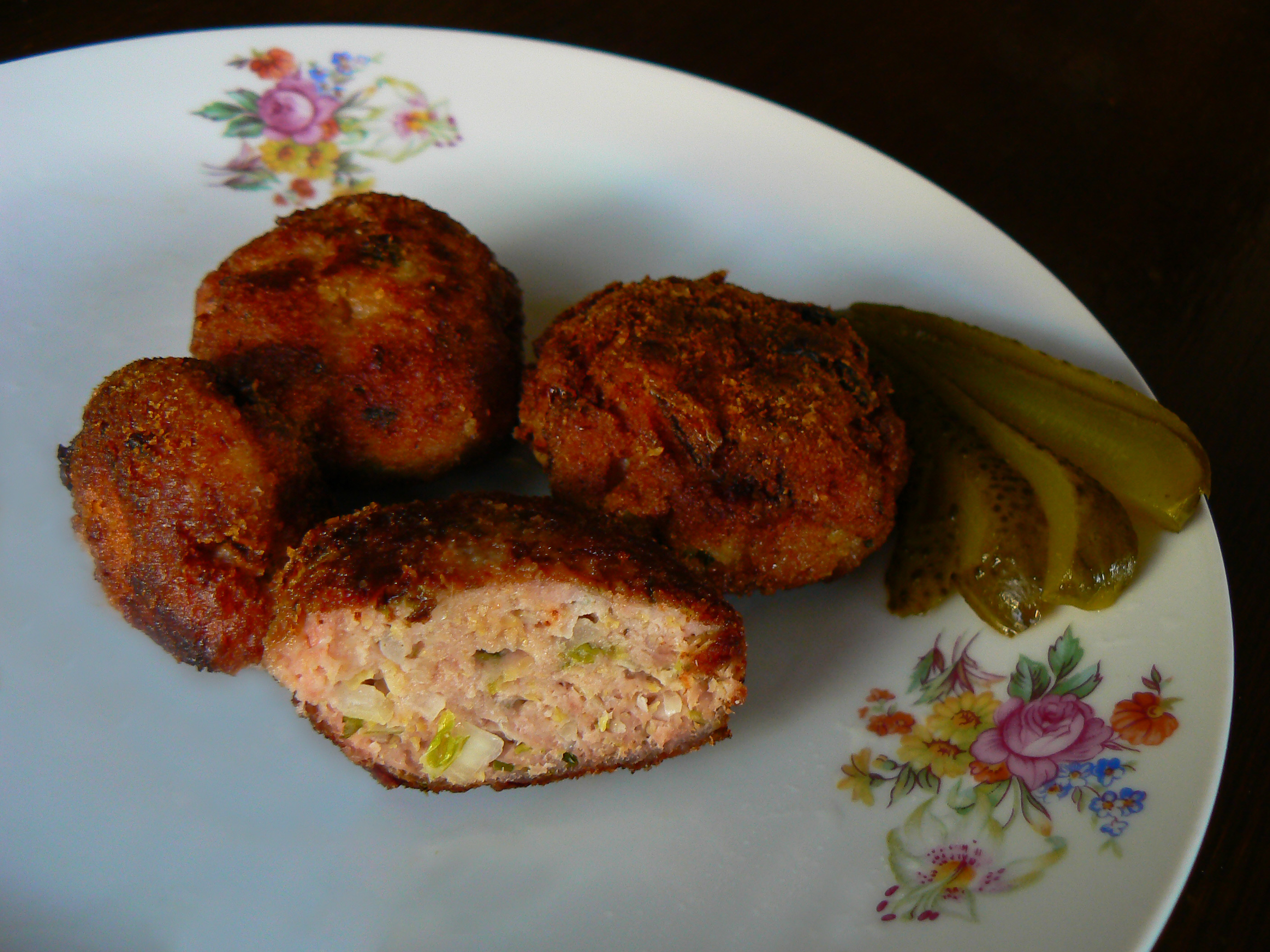 Cabbage frikadeller